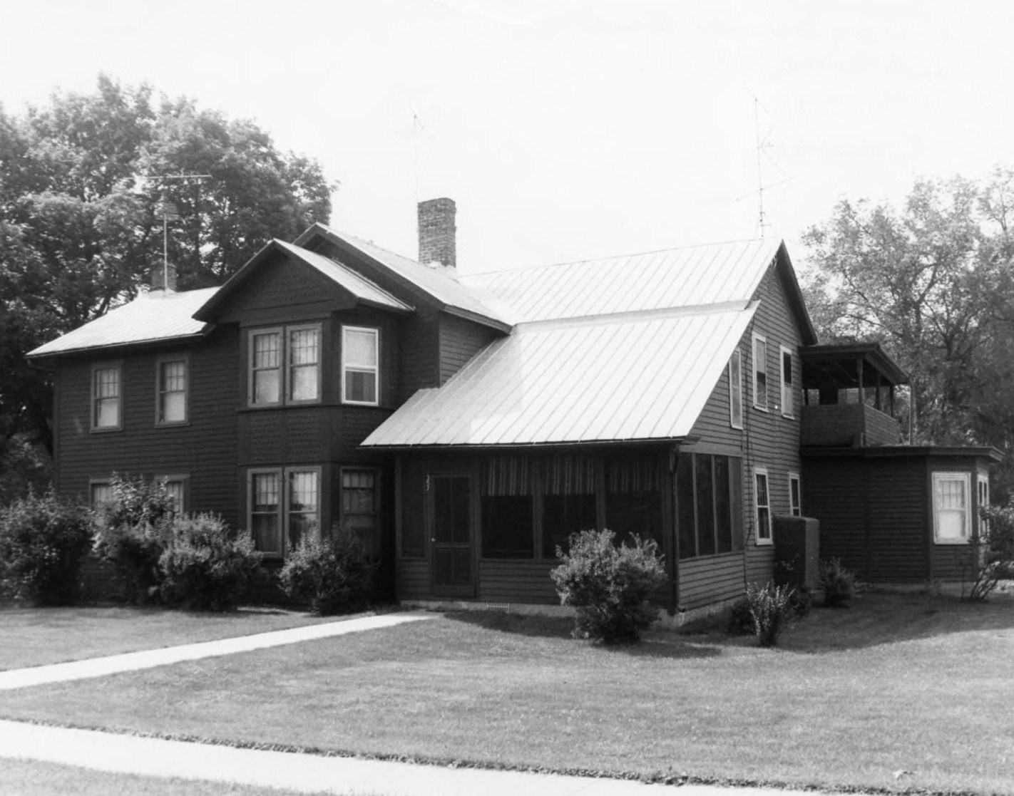 Hamlin Garlin House, West Salem (La Crosse County, Wisconsin) cropped This image or media file contains material based on a work of a National Park Service employee, created as part of that person's official duties. As a work of the U.S. federal government, such work is in the public domain. See the NPS website and NPS copyright policy for more information.